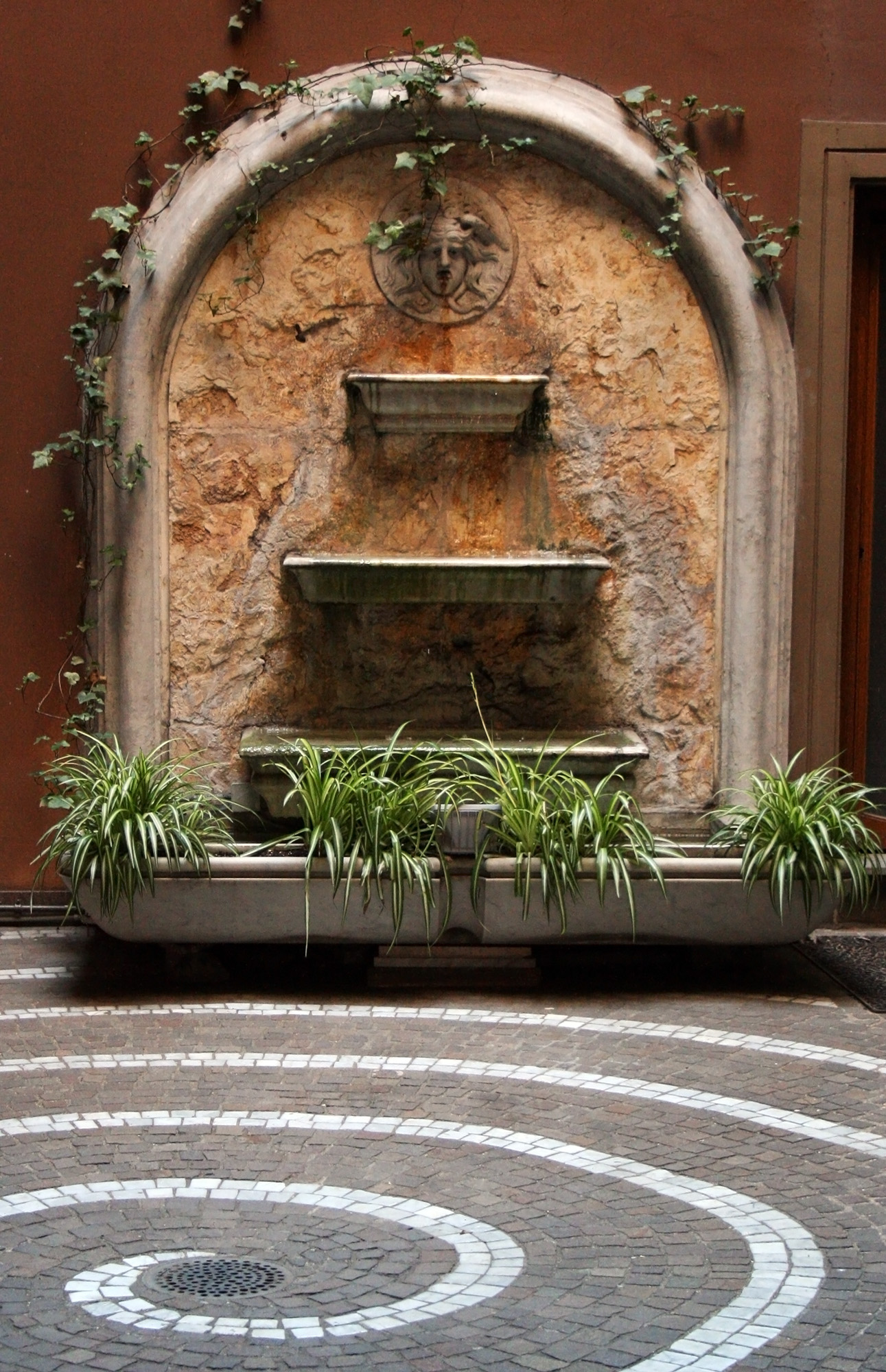 Courtyard in Via Dei Coronari in Rome, Italy